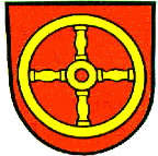 Coat of arms of Waldprechtsweier (Malsch (Landkreis Karlsruhe))